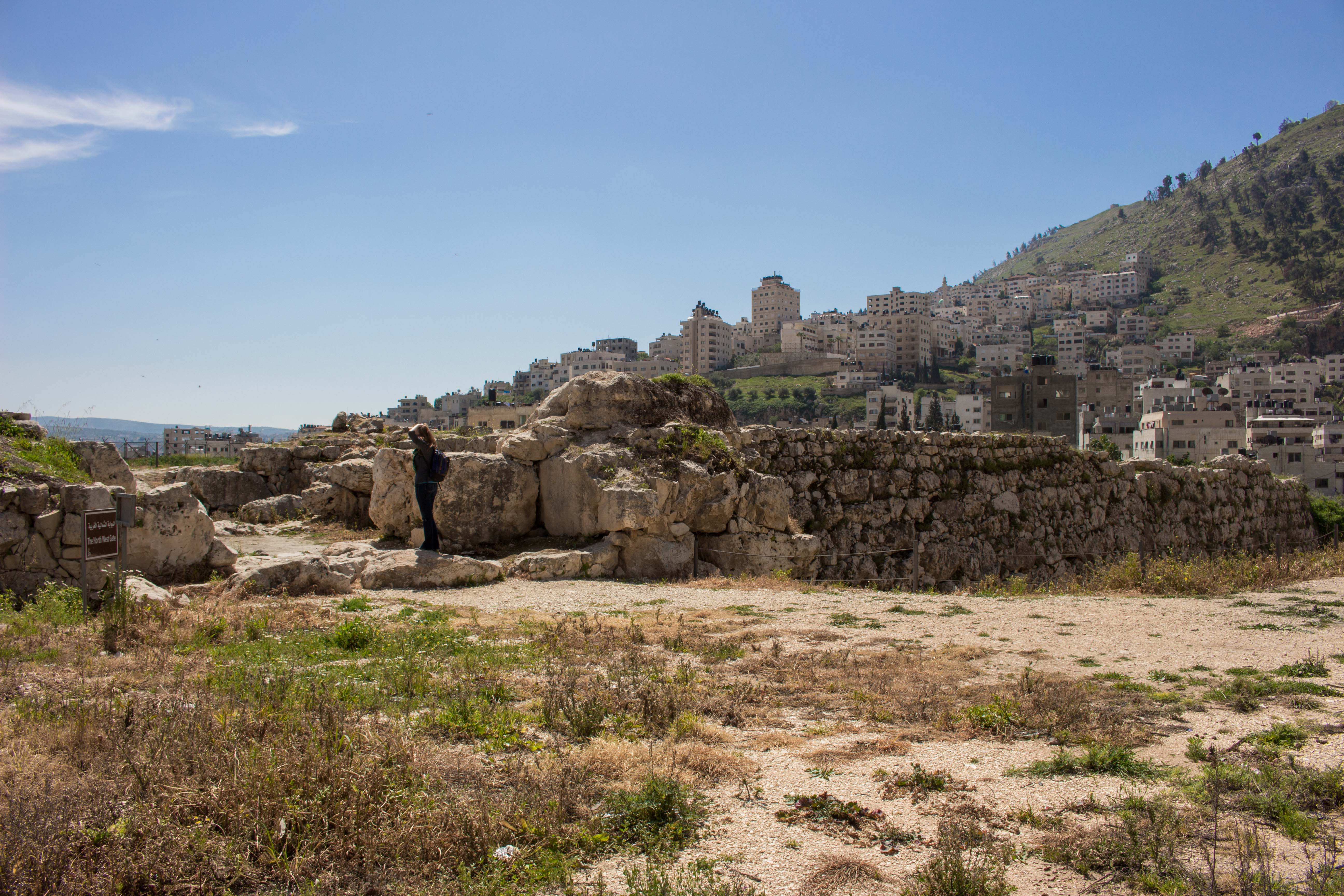 The city wall and gate of Tell Balata